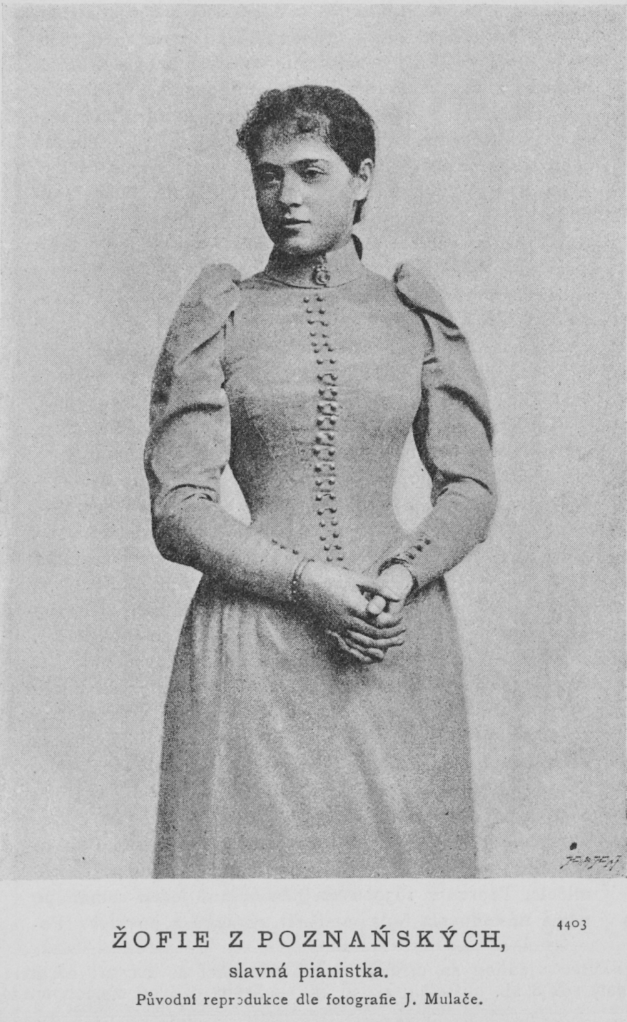 Portrait of Zofia Rabcewicz (1870 - 1947), Polish piano player. The caption to the picture shows "Žofie z Poznańských" (Czech translation of her maiden name). See her short biography in Czech in the same issue to verify the identity.